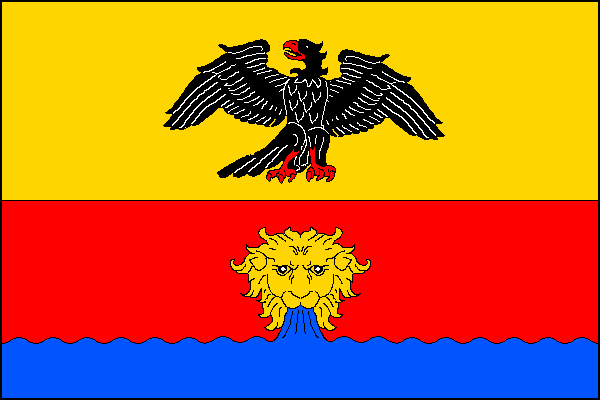 Municipal flag of Kyselka village, Karlovy Vary District, Czech Republic.